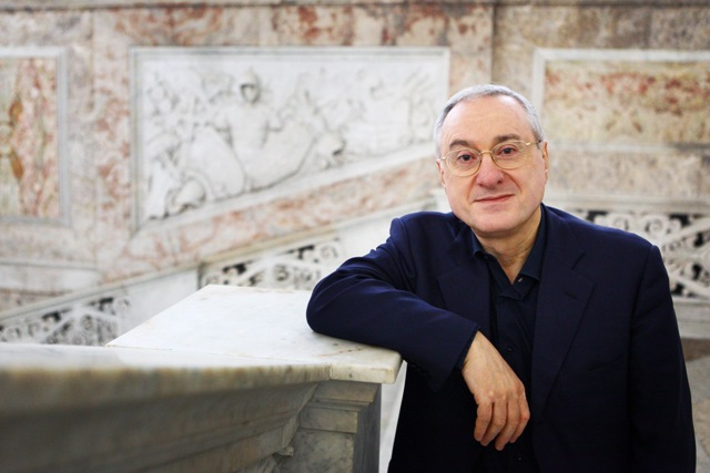 Michele Campanella musician